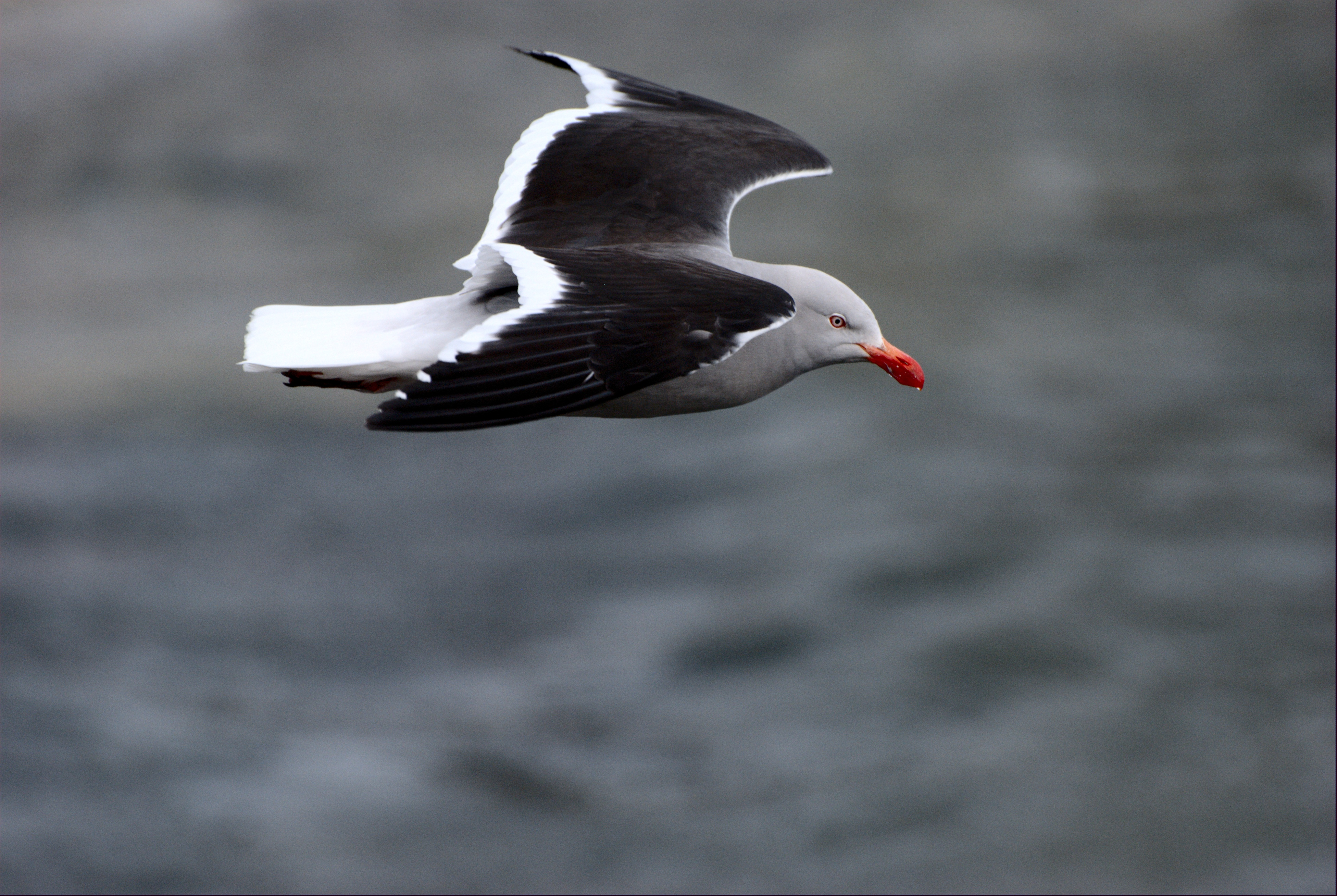 A Dolphin Gull flying in Patagonia, Argentina.